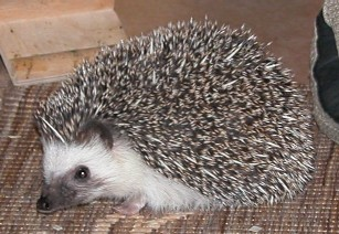 Fully grown African Four-toed Hedgehog called "Tepsu".